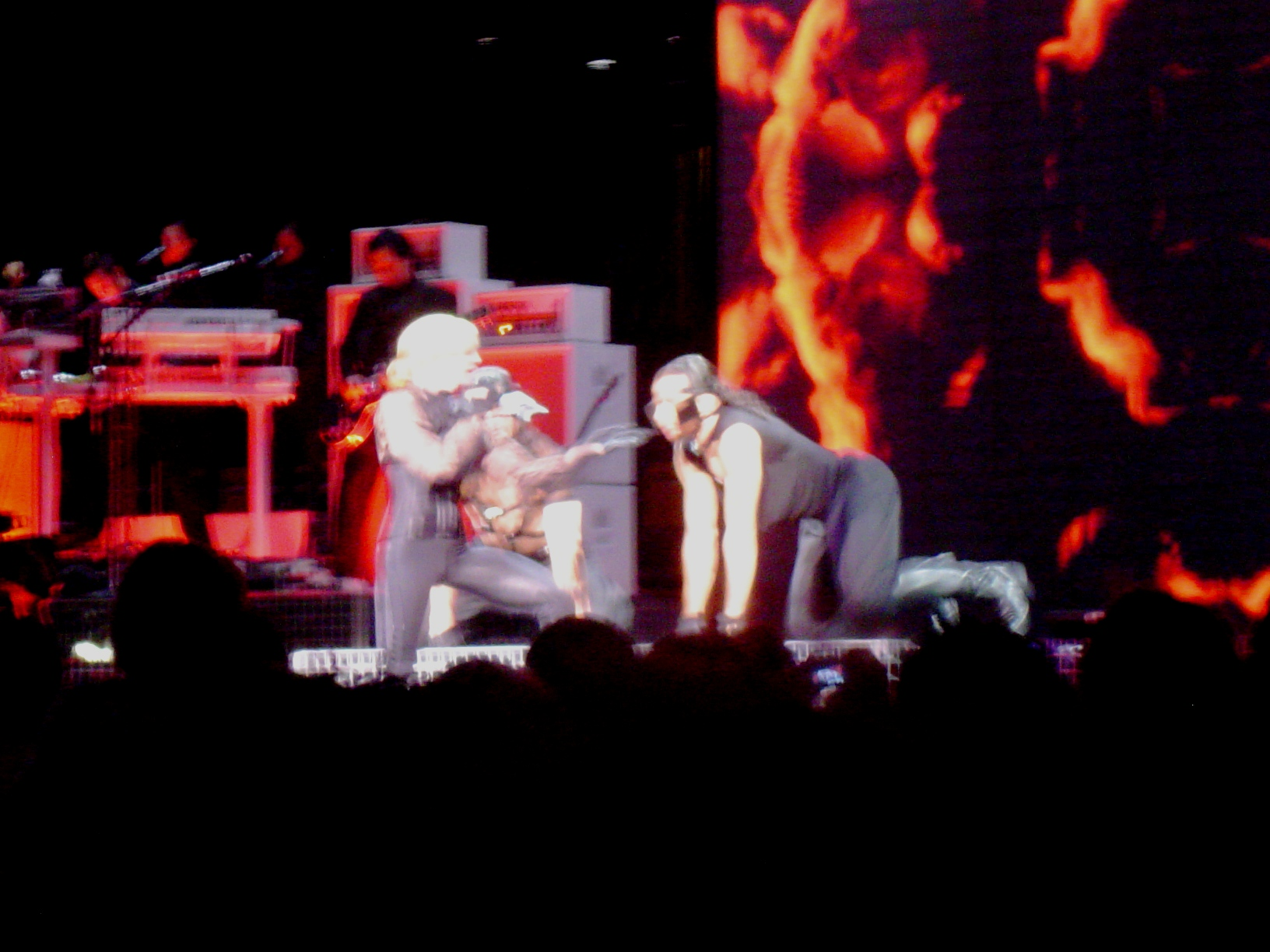 get together